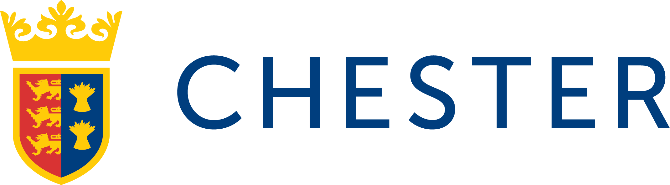 Chester Racecourse (2016) Landscape Logo